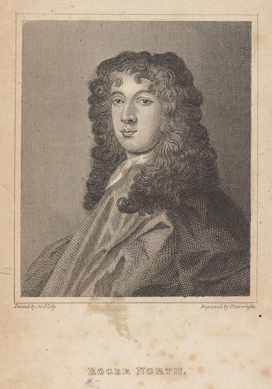 Roger North (1653-1734)